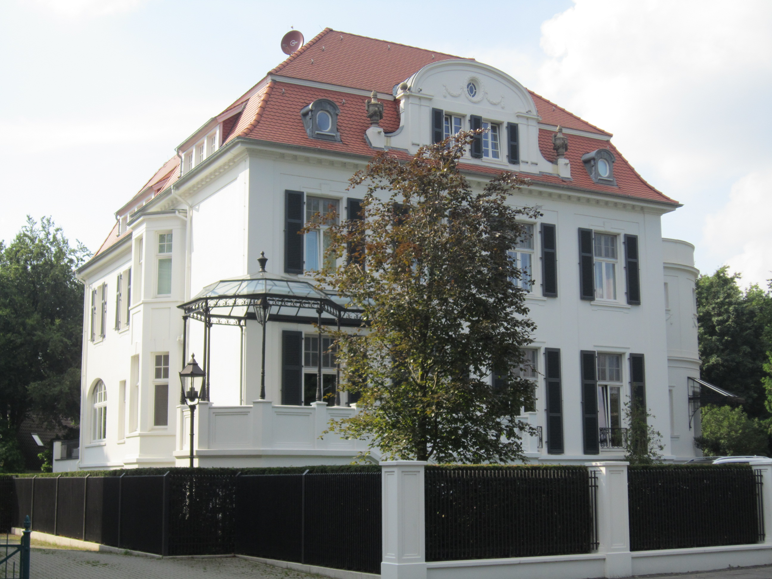 Villa Gartenstraße 5 in Oldenburg. Formerly used by the "Brücke der Nationen" (culture center)